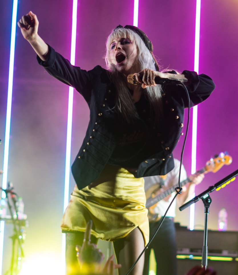 Paramore live concert at Royal Albert Hall, London, UK.